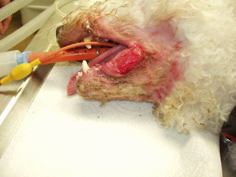 Dog under anesthesia demonstrating cutaneous T-cell lymphosarcoma (mycosis fungoides)